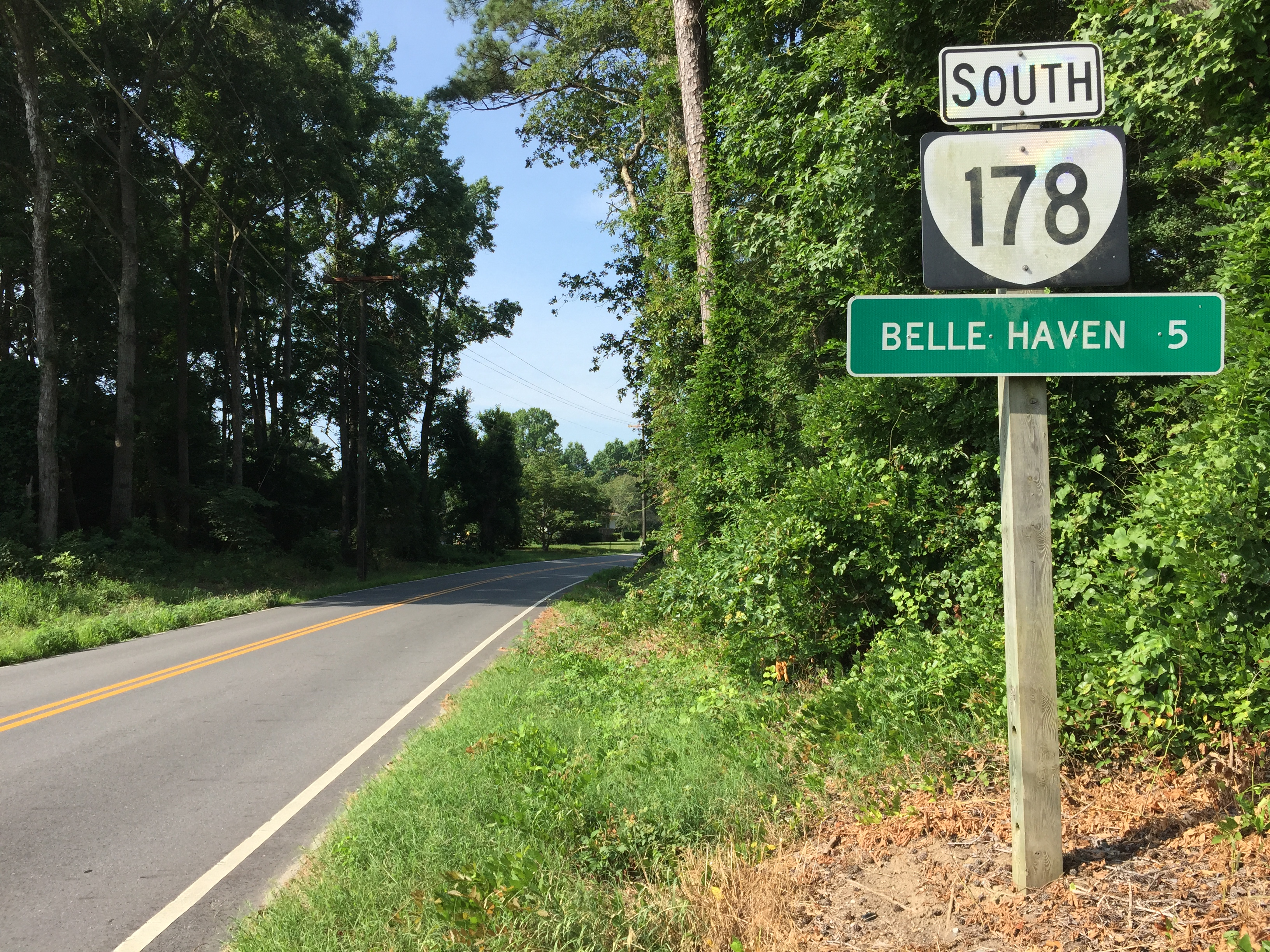 View south along Virginia State Route 178 (Boston Road) between Heath Lane and Marilyn Drive in Boston, Accomack County, Virginia